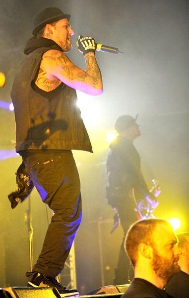 Joel Madden